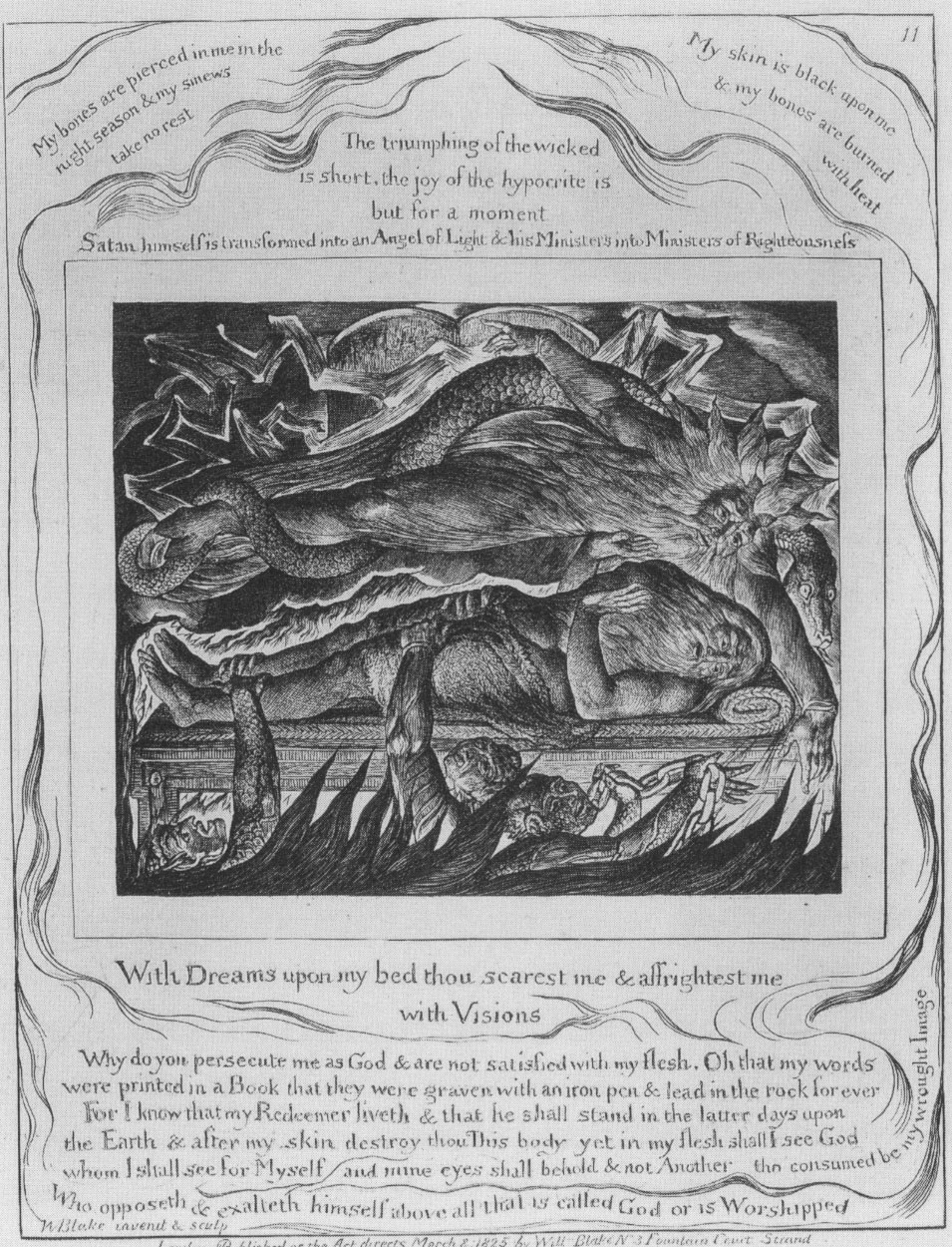 A photographic reproduction of an engraving by William Blake